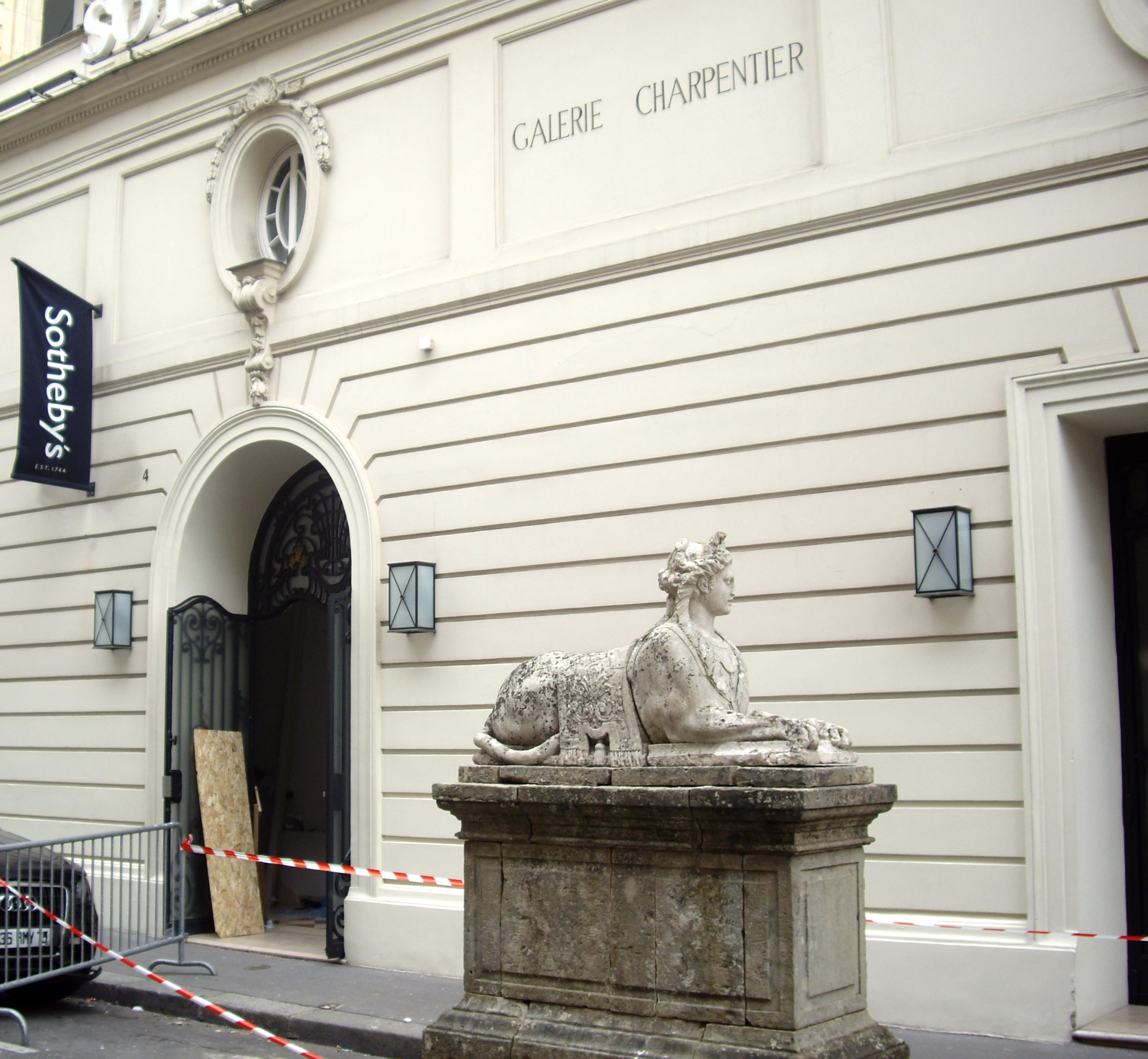 Delivery day at Sotheby's, Rue de Duras, Paris 8e.